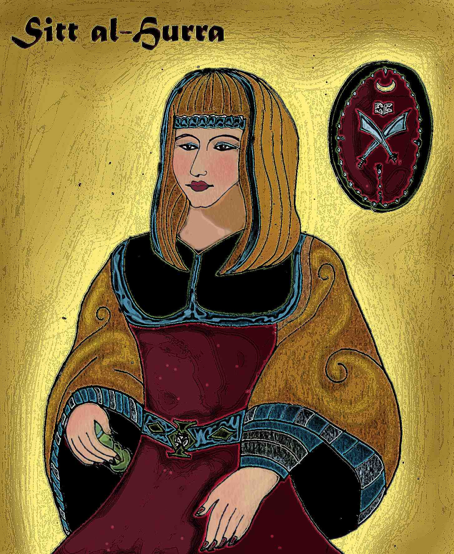 portrait of Sitt al-Hurra, Sayda el Hora, of Tetuan